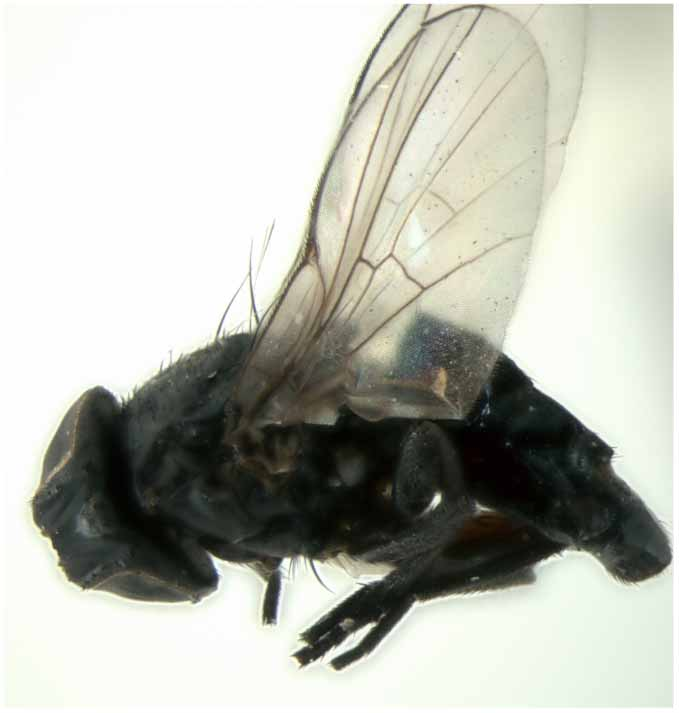 This is an adult asparagus miner that has been pinned.